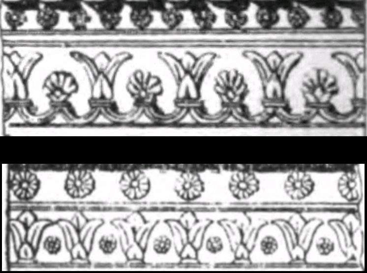 Persian frieze designs at Persepolis. Actual frieze of palmettes and Lotus.